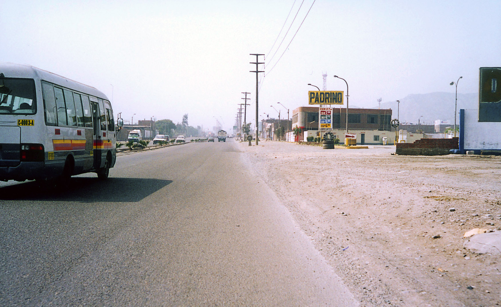 The Central highway (carretera central), at Vitarte, Peru. The photo was taken 2002 by Håkan Svensson (Xauxa).